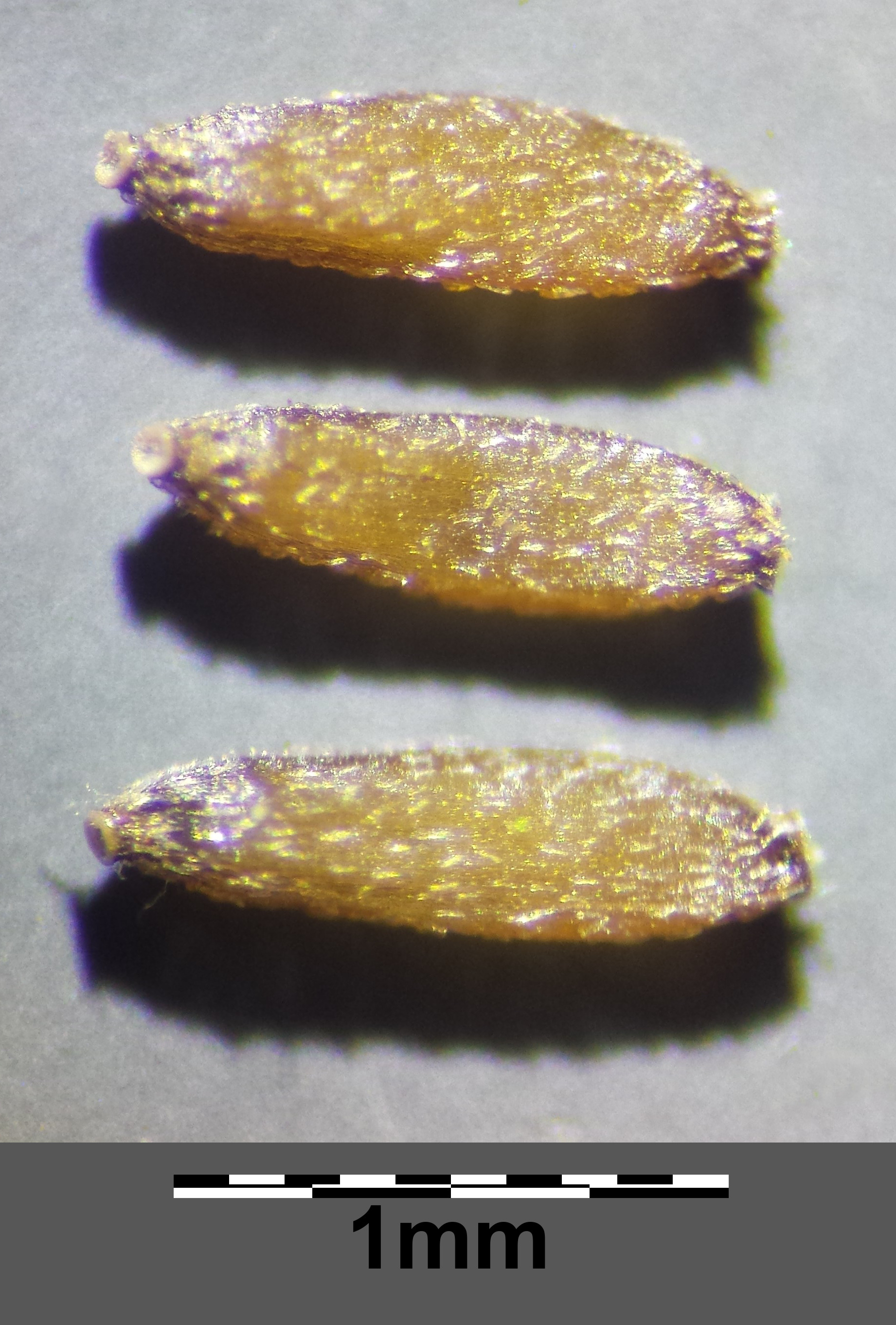 Achenes Taxonym: Gnaphalium sylvaticum ss Fischer et al. EfÖLS 2008 ISBN 978-3-85474-187-9 Location: next to Großschönau, district Gmünd, Lower Austria - ca. 675 m a.s.l. Habitat: wayside within a wood